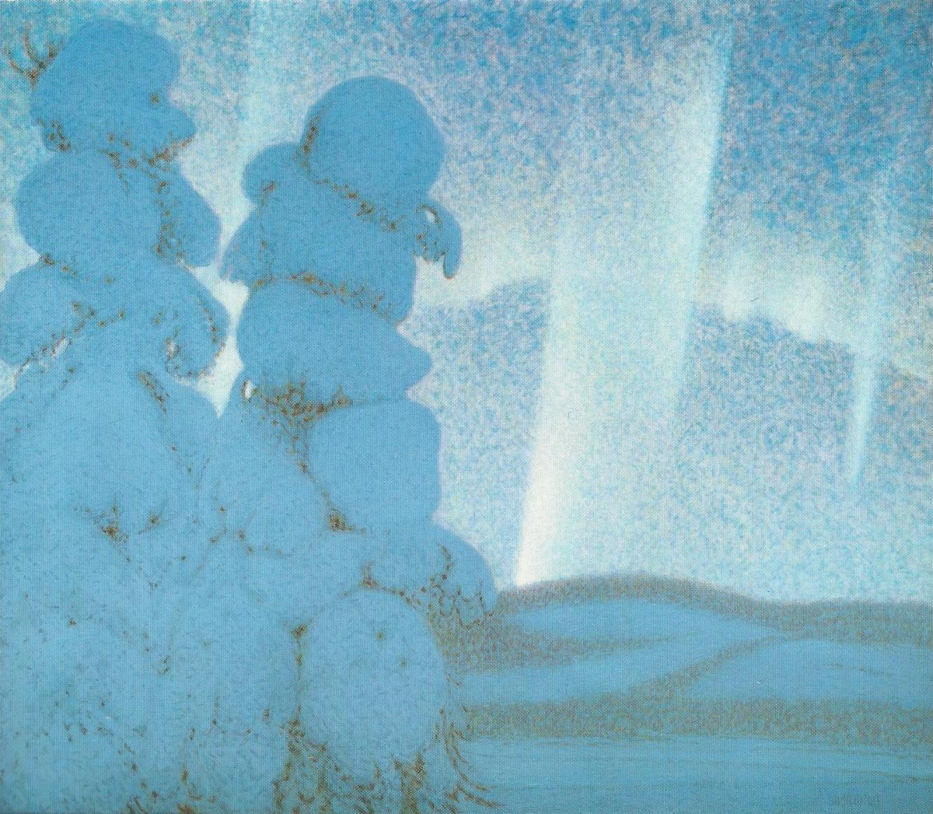 Oilpainting by the Swedish artist Bror Lindh (1877–1941)